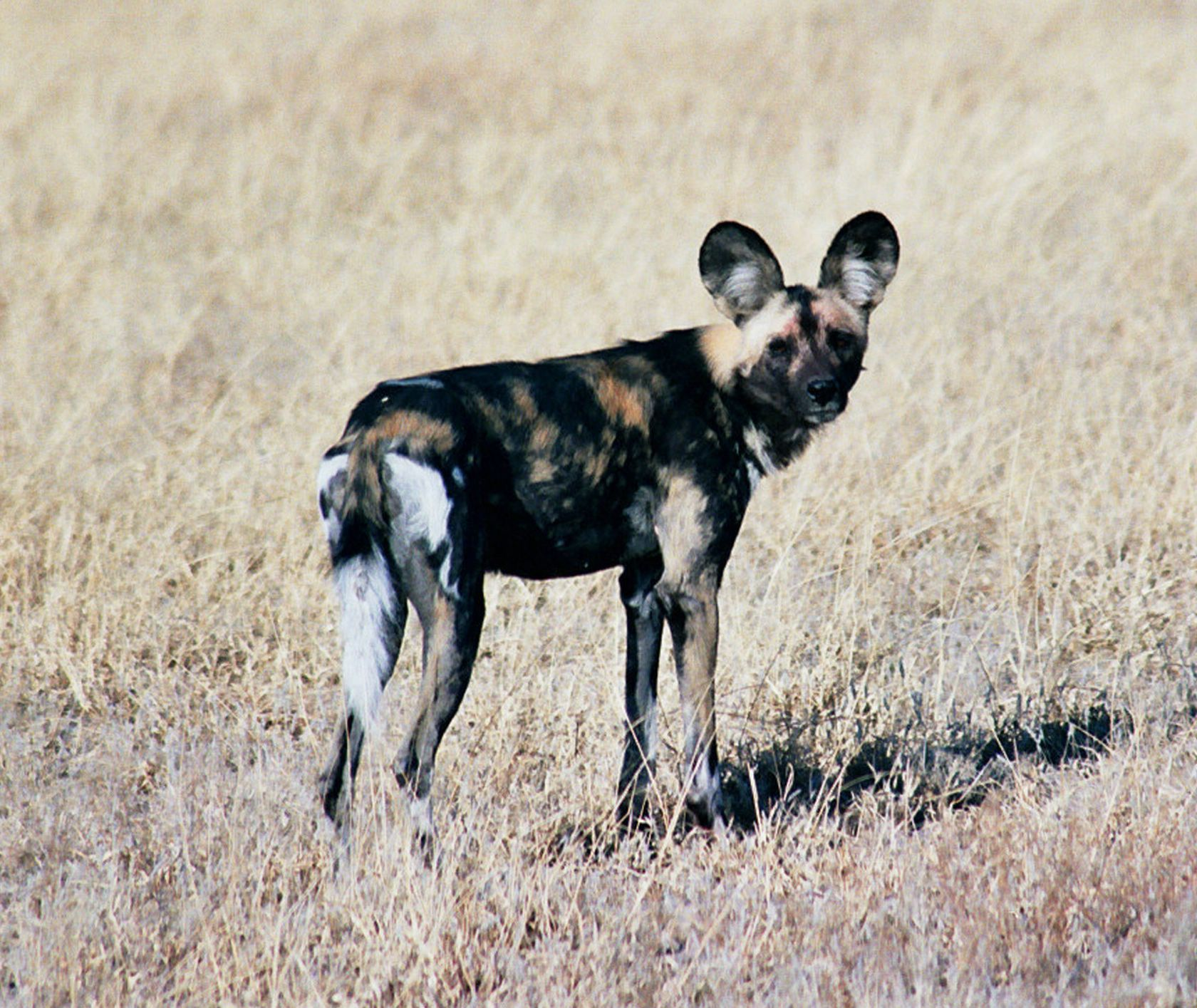 Wild Dog, seen on safari in Botswana, in Kalahari National Park. Photo taken by Ian Sewell. More pictures here: African Safari Pictures